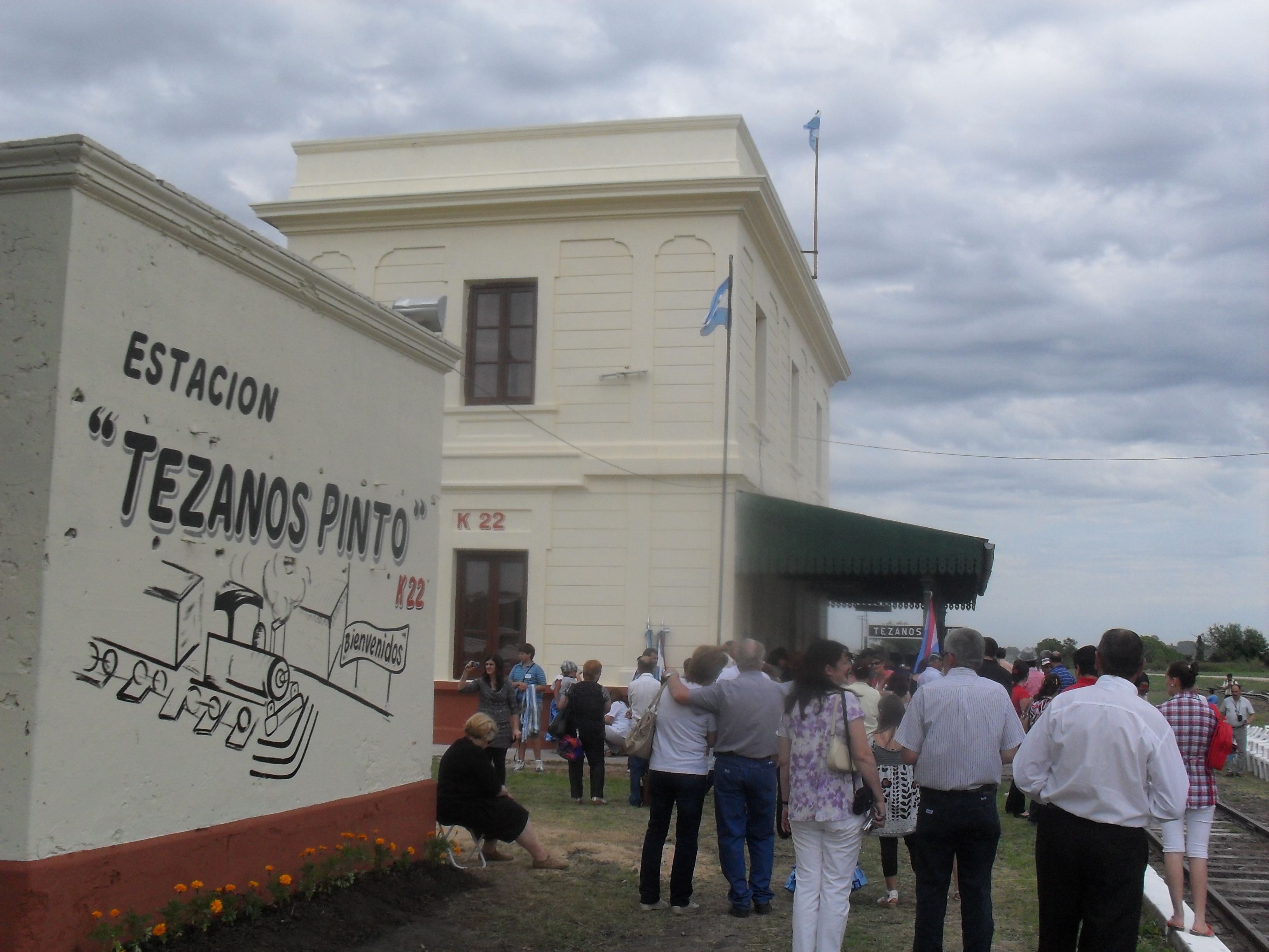 Todos en el anden.